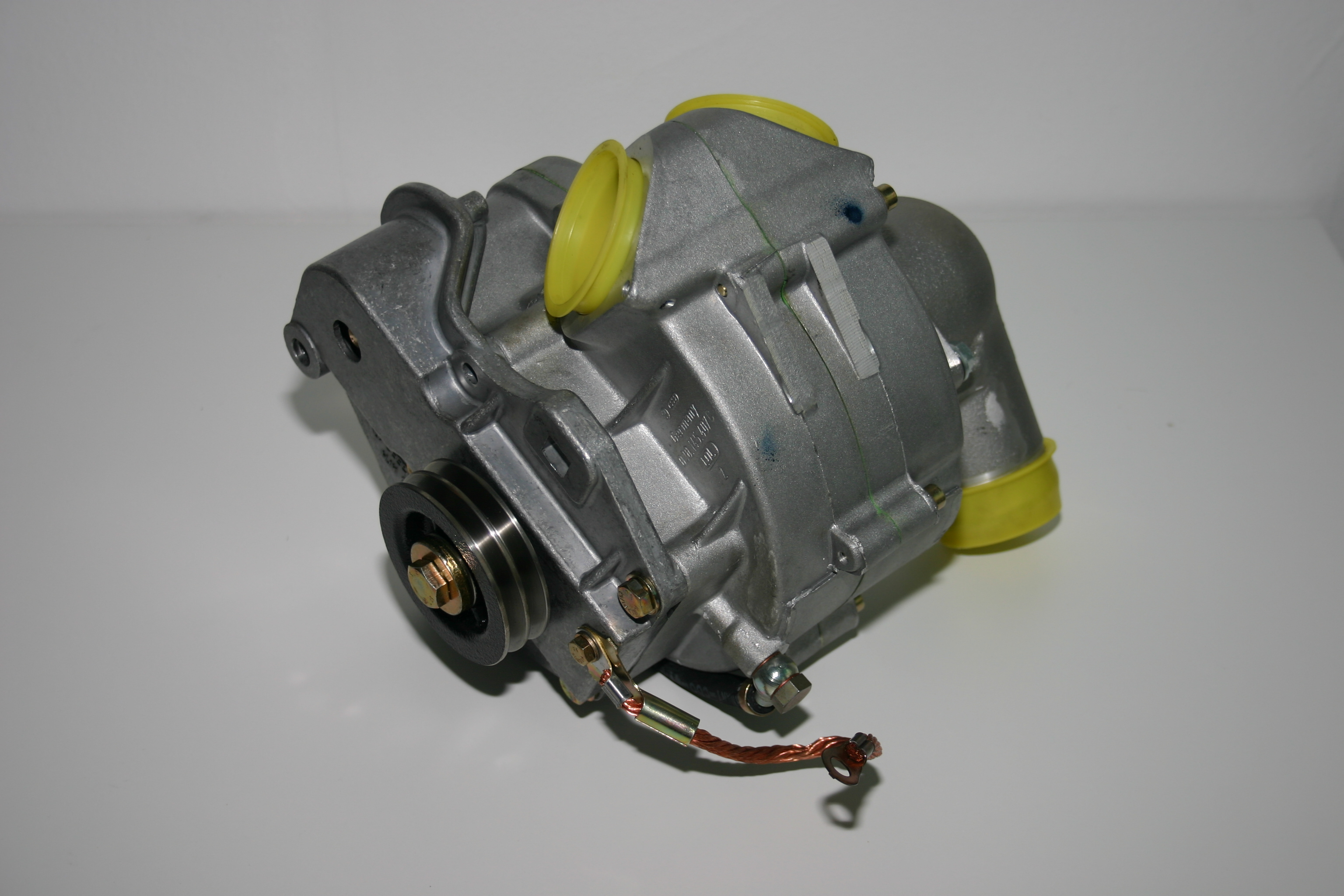 Volkswagen G-Charger, G-Supercharger (G40)